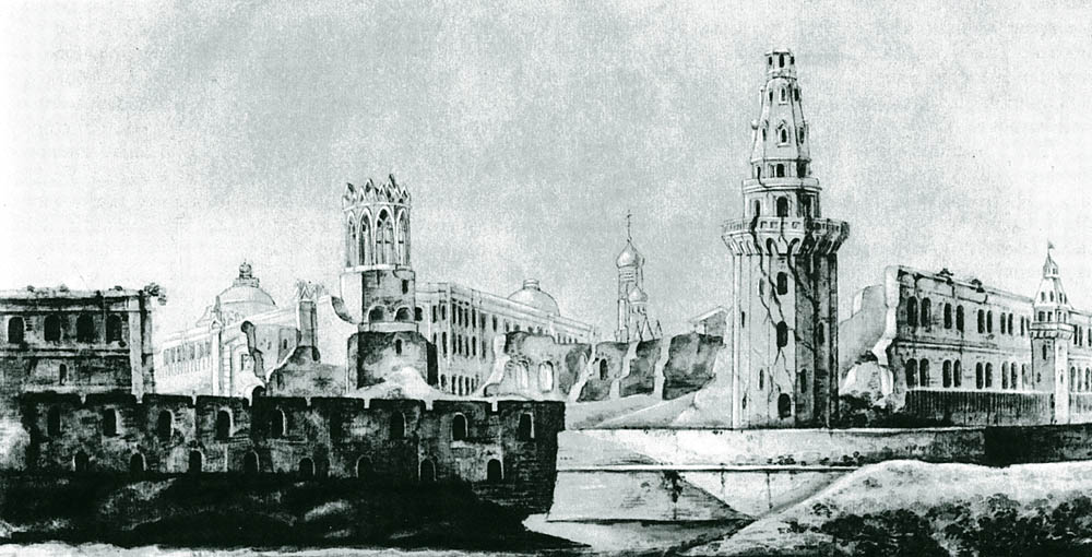 Damage of Moscow Kremlin in 1812. Two towers in the center are Nikolskaya and Arsenalnaya; right behind them are the ruins of Kremlin Arsenal. The wall between two towers - completely collapsed.